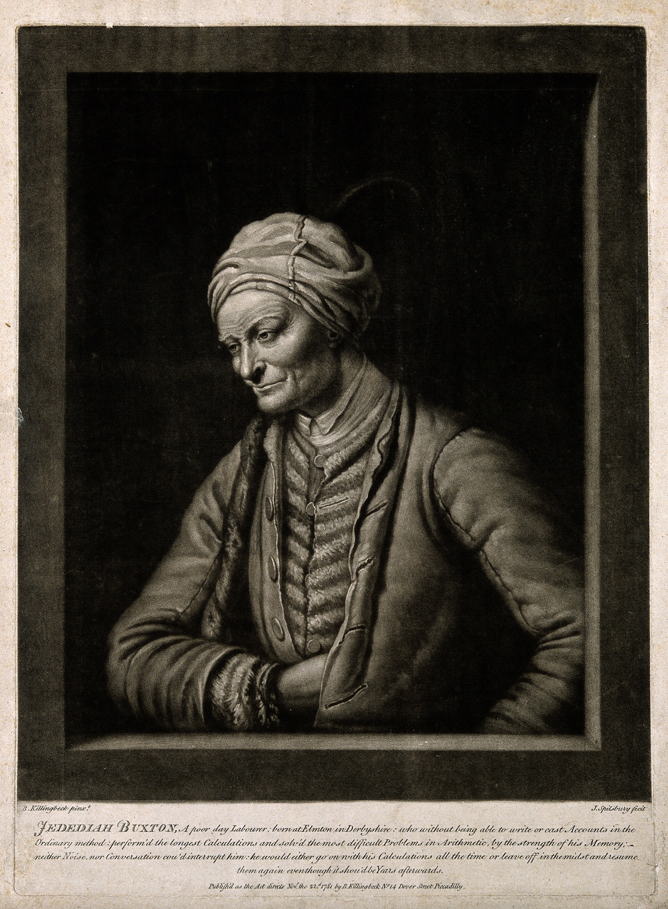 Jedediah Buxton, a mental calculator. Mezzotint by J. Spilsbury, 1781, after B. Killingbeck. Iconographic Collections Keywords: mental calculators; Jedediah Buxton; buxton, jedediah, 1702-1772; portrait prints; mezzotints; Benjamin Killingbeck; John Spilsbury